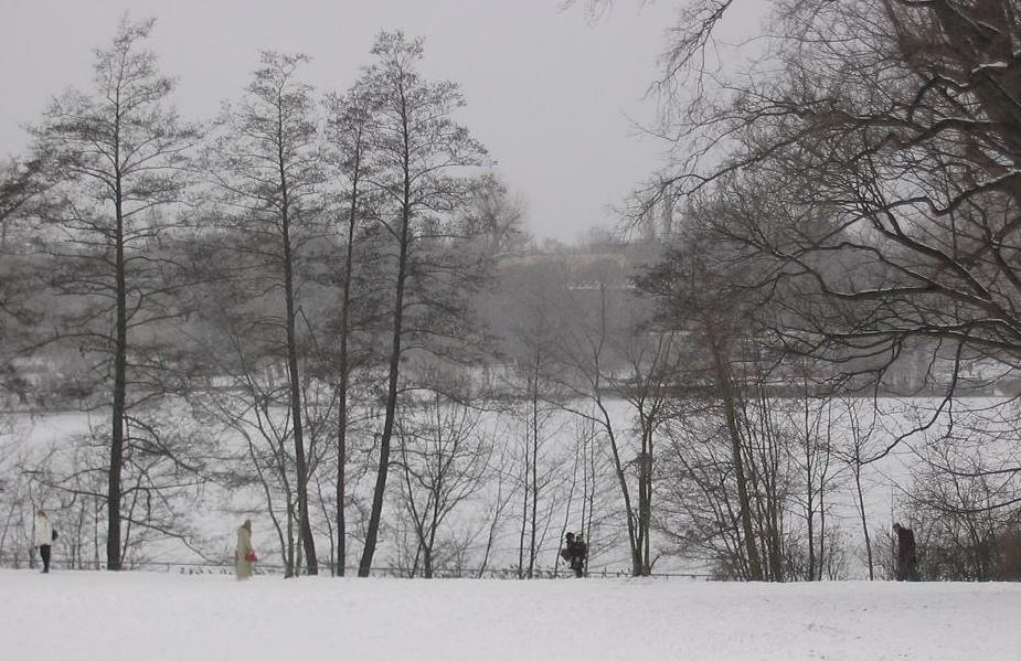 Frozen „Weißer See“ (german for white lake) in Berlin-Weißensee, part of the district Pankow.